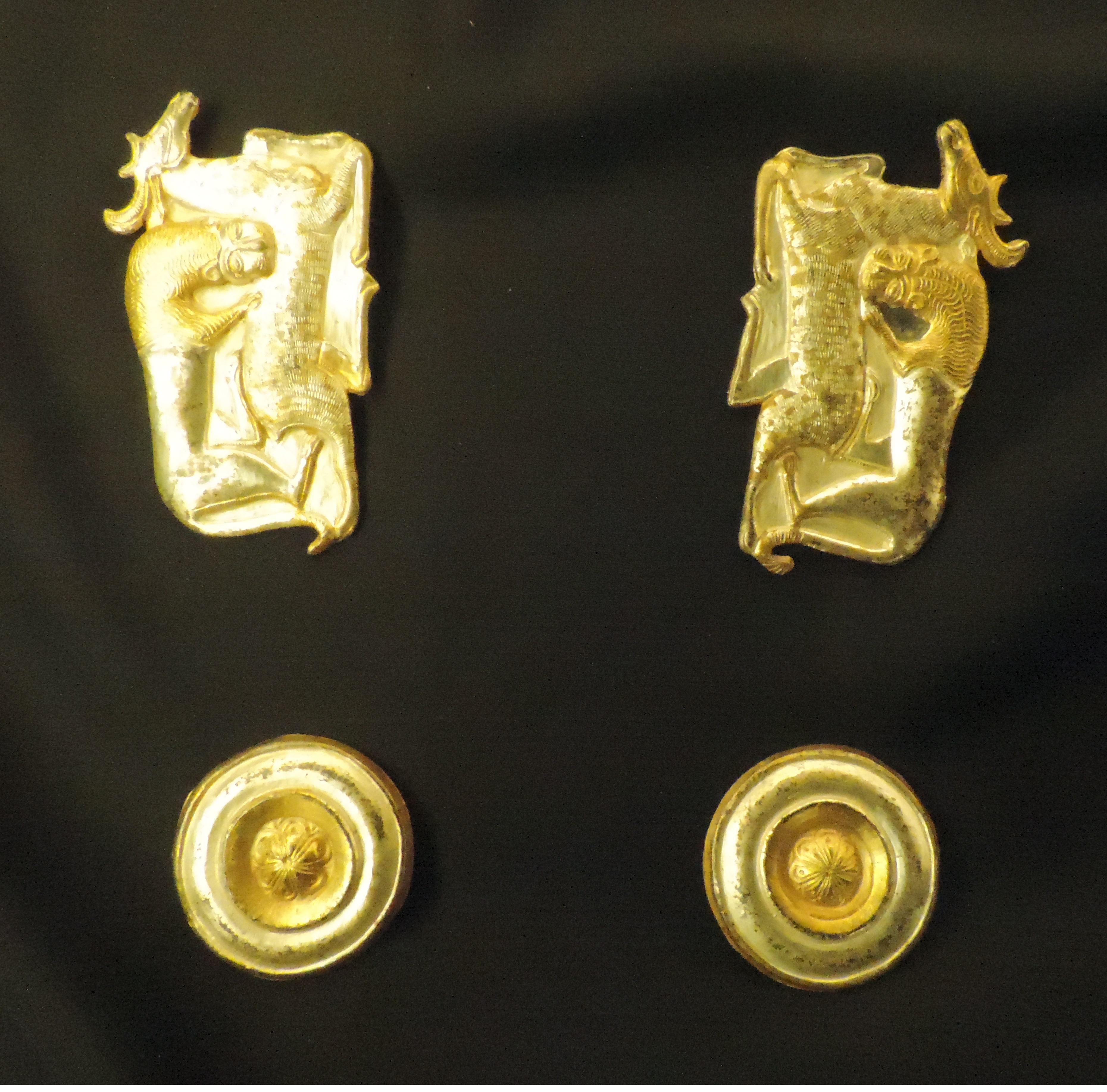 Applications for horse bridles, part of the Lukovit Thracian Treasure, found near the town of Lukovit, Bulgaria (copy, owned by the Regional History Museum of Lovech, photographed at exhibition in the Regional History Museum of Burgas). Lion bites a deer for his neck and under his weight the deer has already fallen with legs folded under the body.